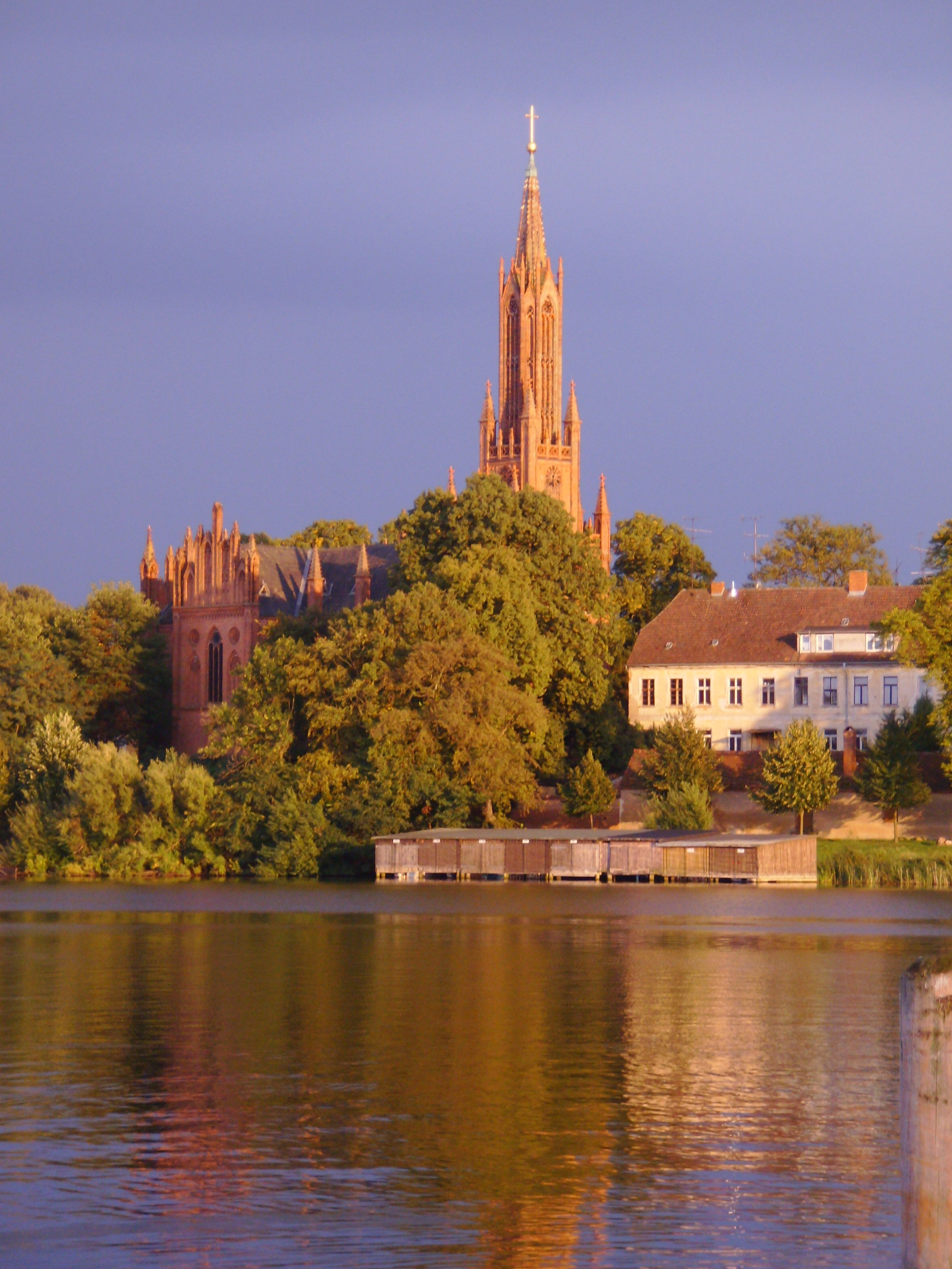 The Monastery of Malchow, Germany